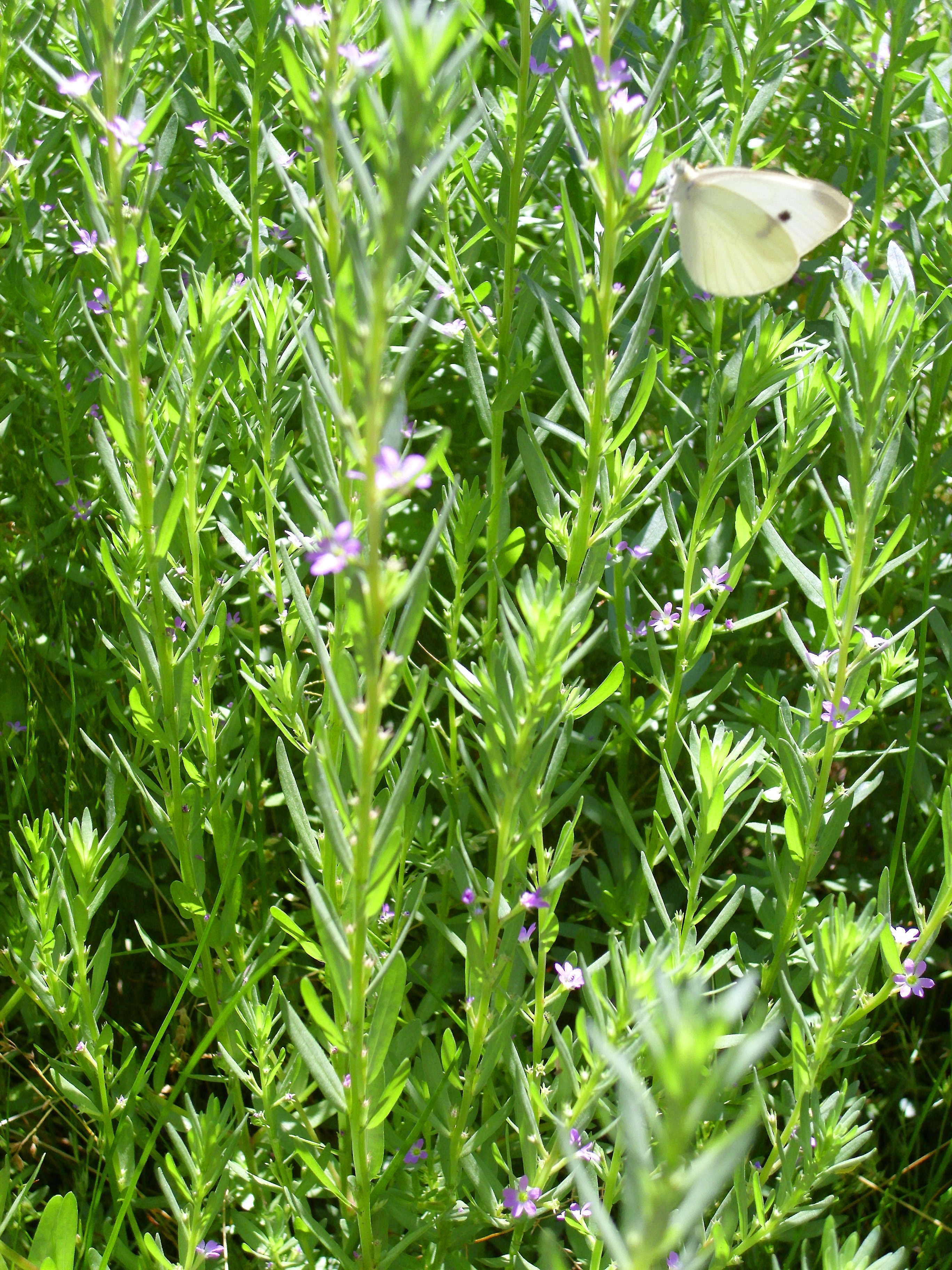 Lythrum hyssopifolia habit, in Sierra Madrona, Spain.